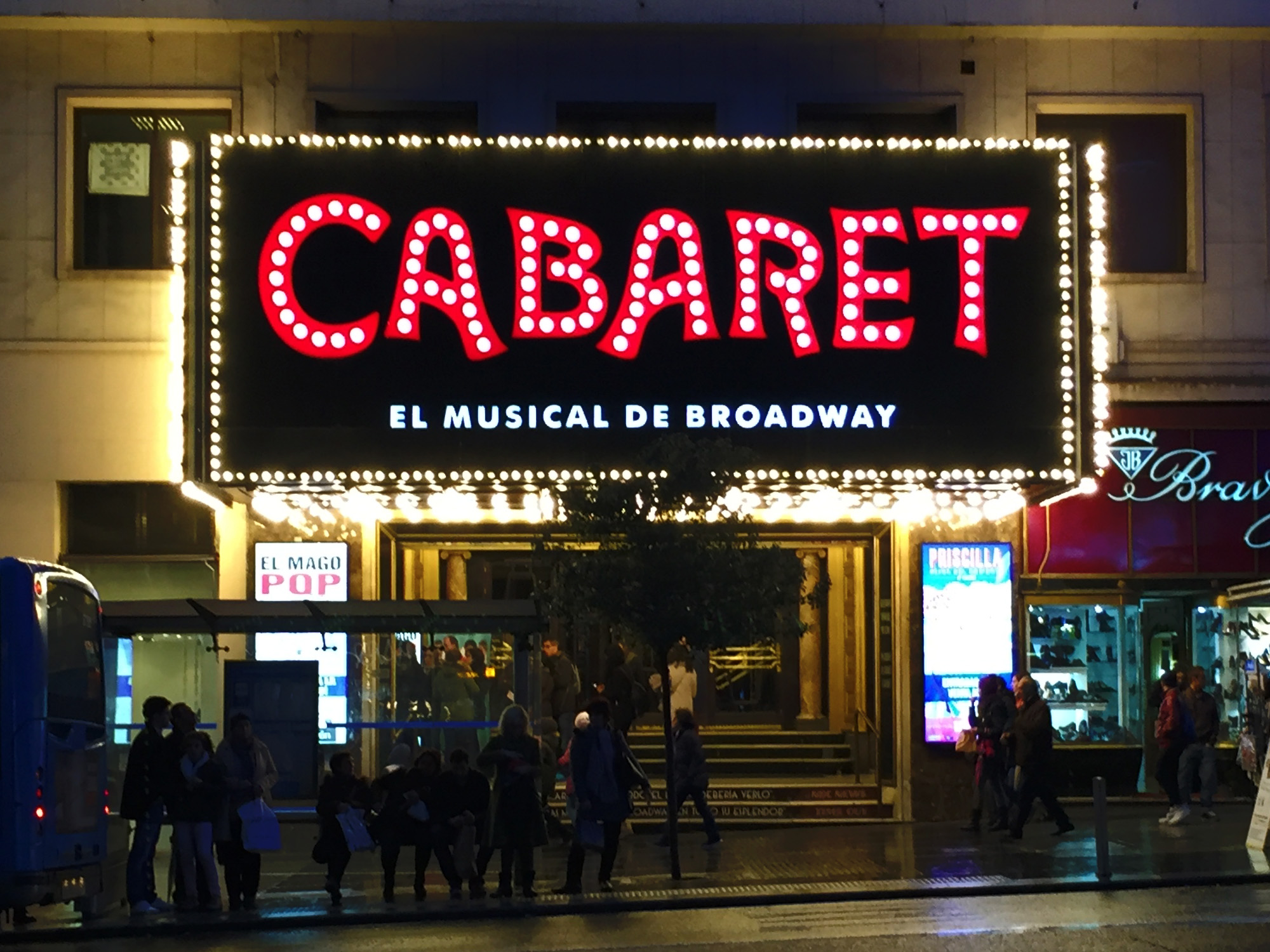 Cabaret at Teatro Rialto in Madrid